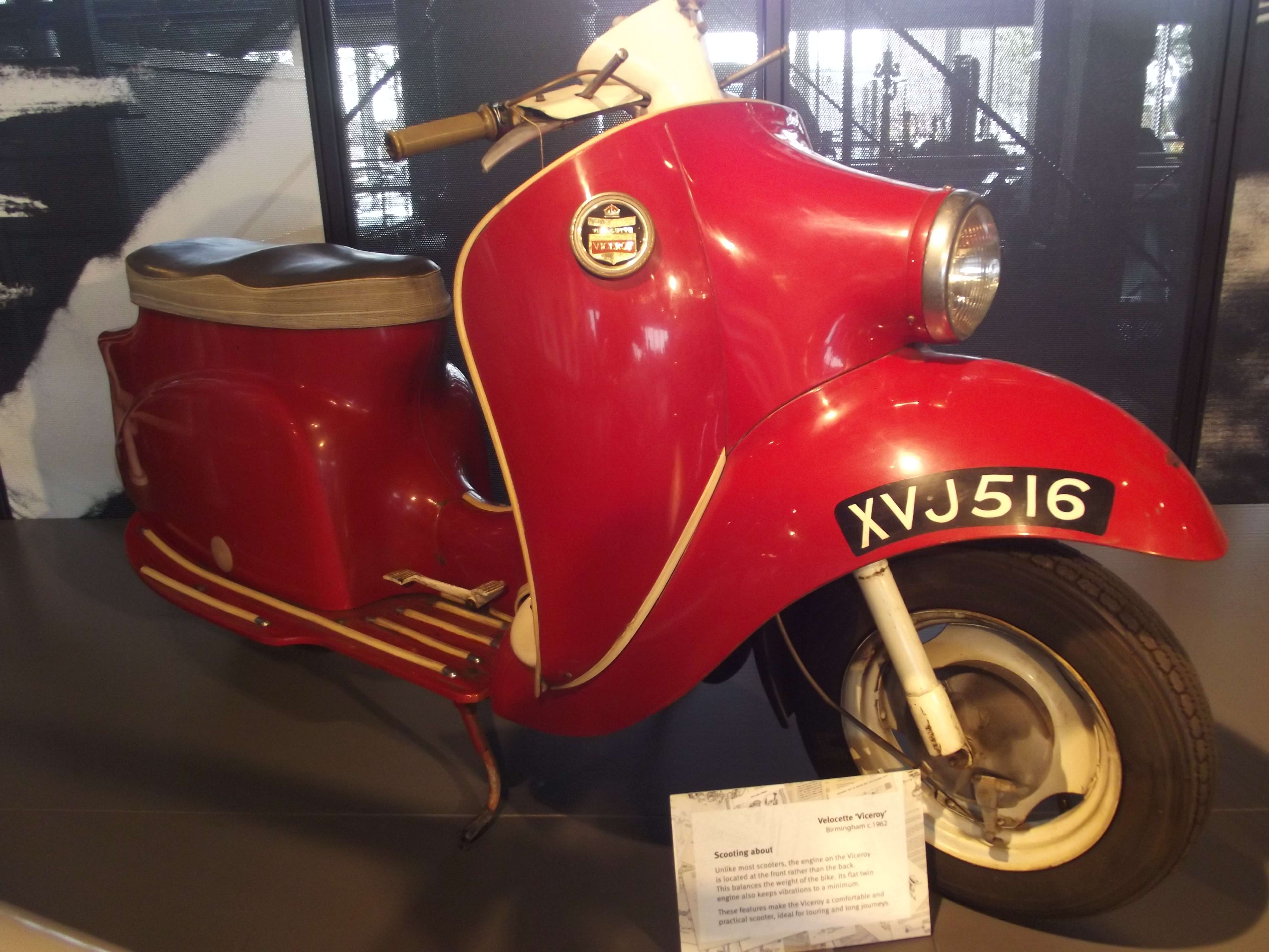 Already did most of the Level 0 area The Past at Thinktank a year before, so didn't need to get much new here. A return to Thinktank thanks to some free vouchers I received last year (only now been able to use them). The Move It section. Motorbikes - don't think I saw them the year before! Velocette 'Viceroy' Birmingham c. 1962 Scooting about